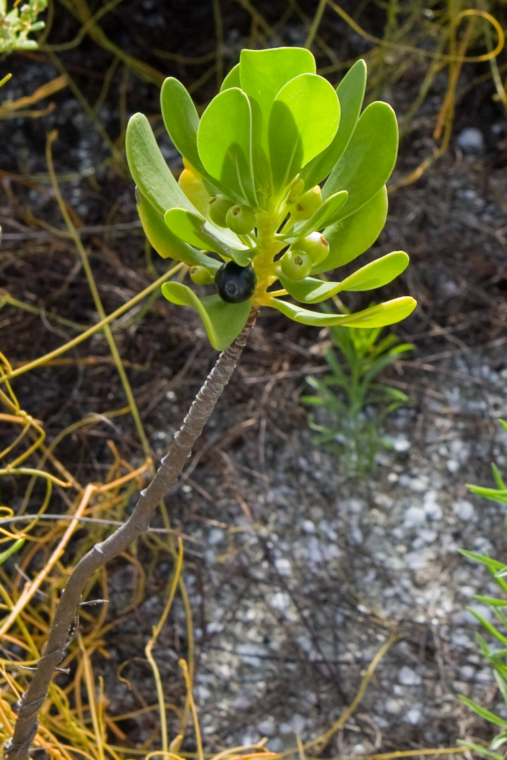 Scaevola plumieri with ripe and unripe drupes. Plant part of a colony located on a hammock a few yards in from the beach on Honeymoon Island State Park, Dunedin, Florida, USA. Common names: Beachberry, Inkberry, Fan Flower.